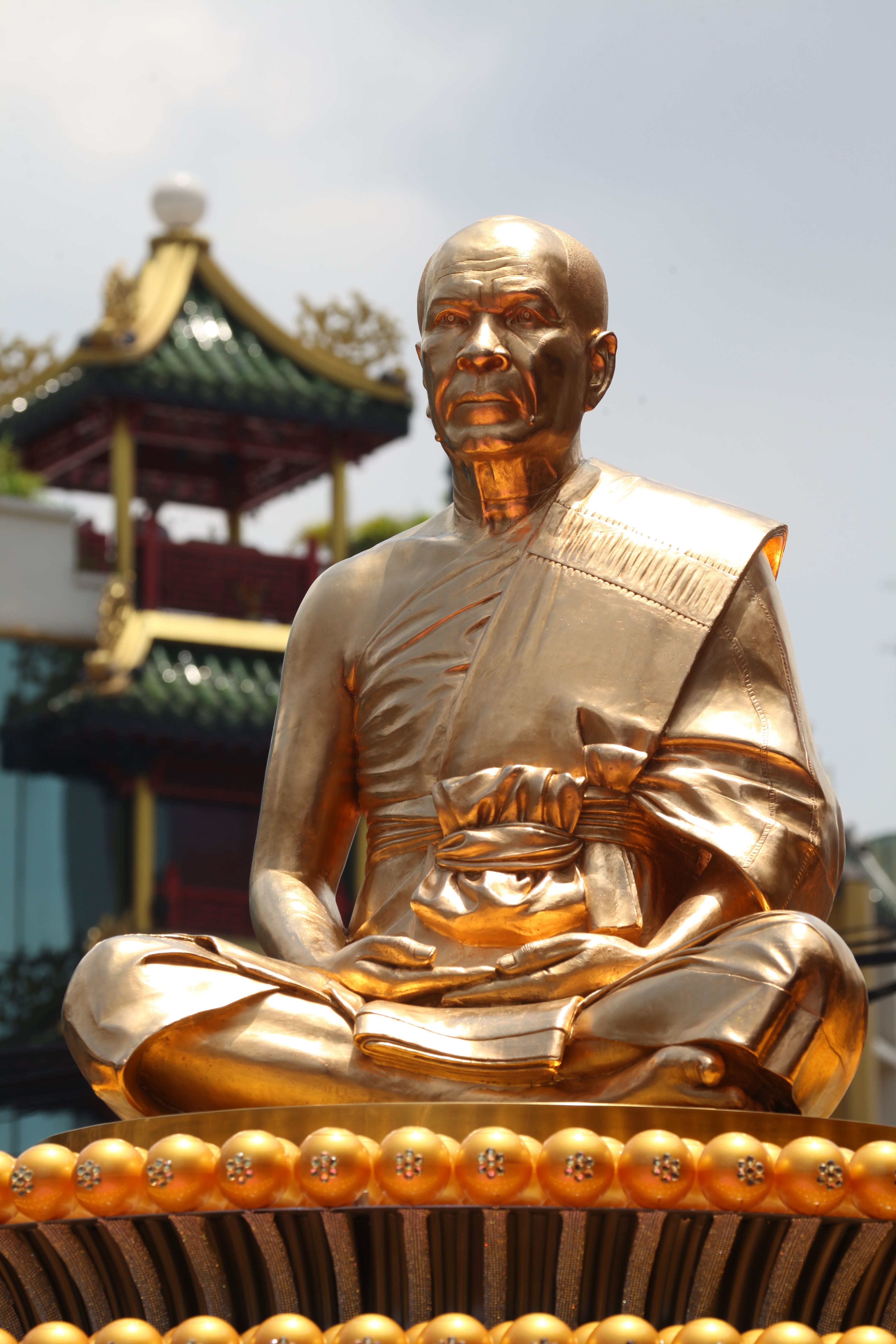 Golden image of Luang Pu Sodh Candasaro, as used in a city pilgrimage organized by Wat Phra Dhammakaya